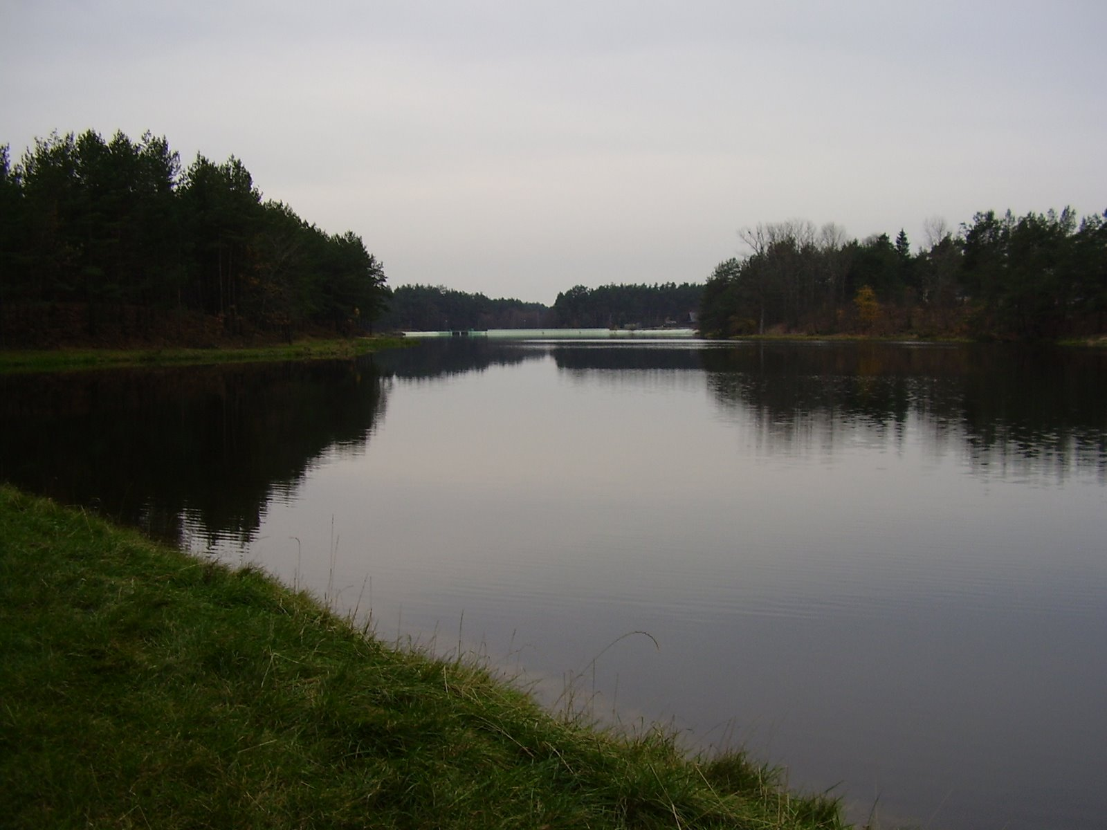 Majdan Sopocki Drugi